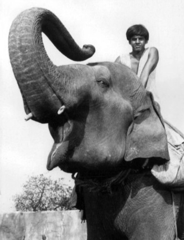 Publicity photo of actor Sajid Kahn in his starring role on the television program Maya.